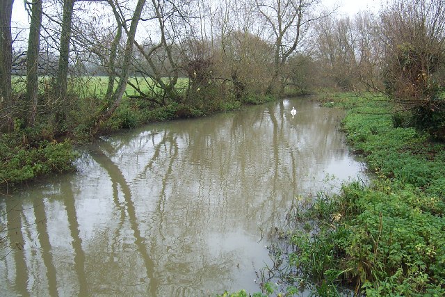 Hinksey Stream, North Hinksey Village. Viewed looking downstream and south-eastwards from the footbridge behind The Fishes pub.